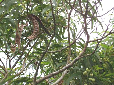 Leaves, flowers, and old fruits of Acacia Koa trees.